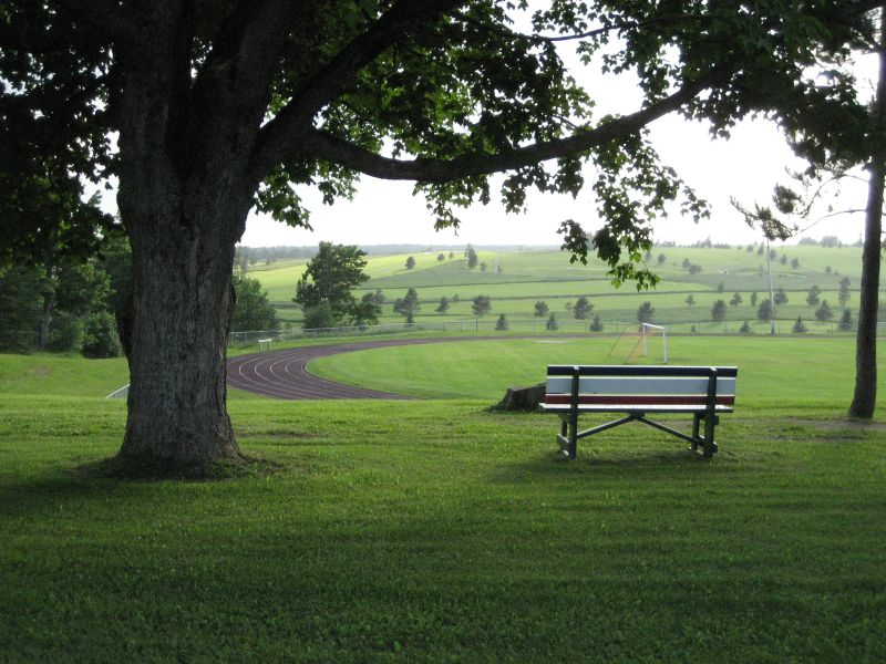 Sport fields in Memramcook, New Brunswick.